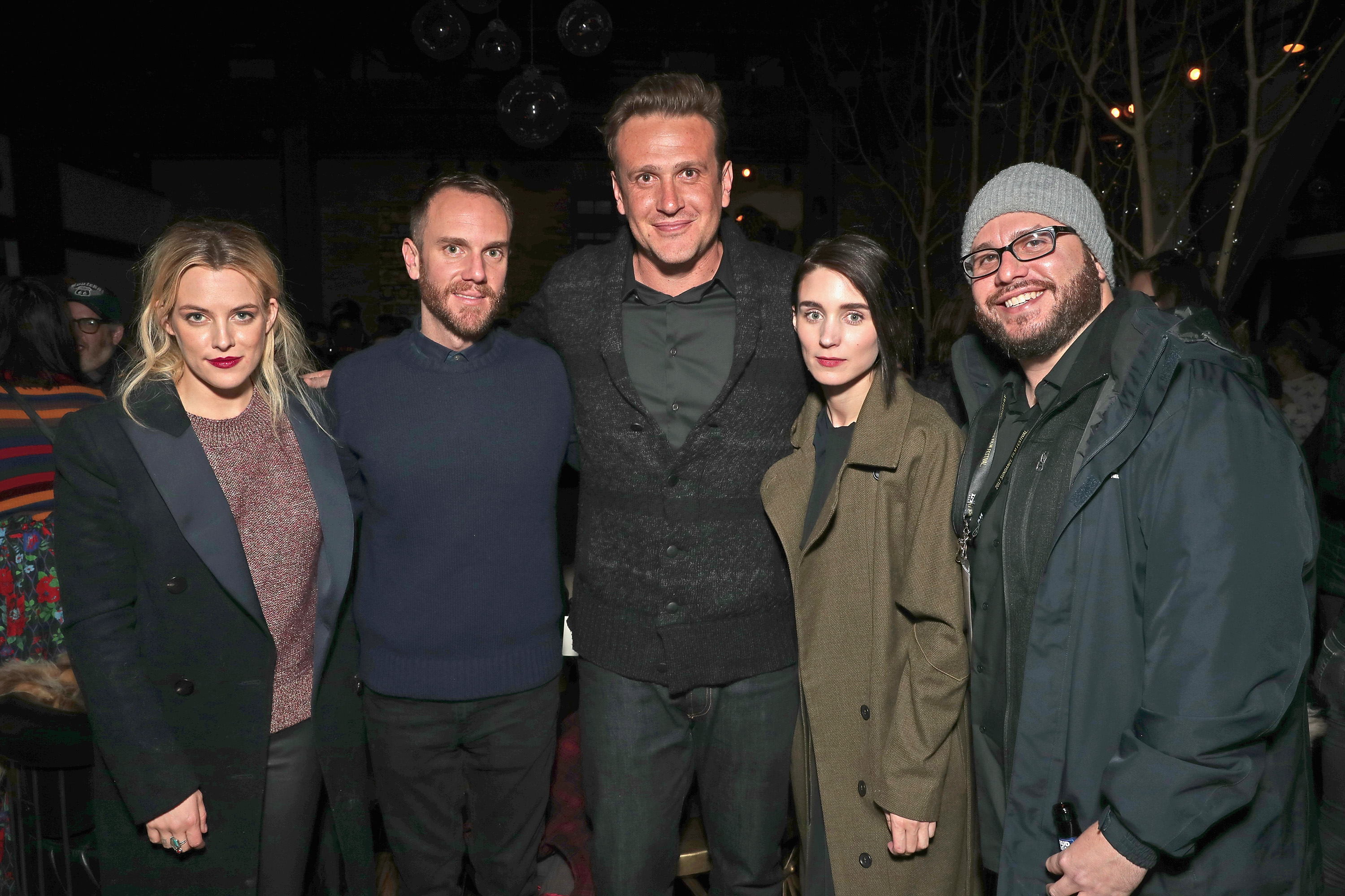 The Discovery premiere during day 2 of the 2017 Sundance Film Festival at Eccles Center Theatre on January 20, 2017 in Park City, Utah